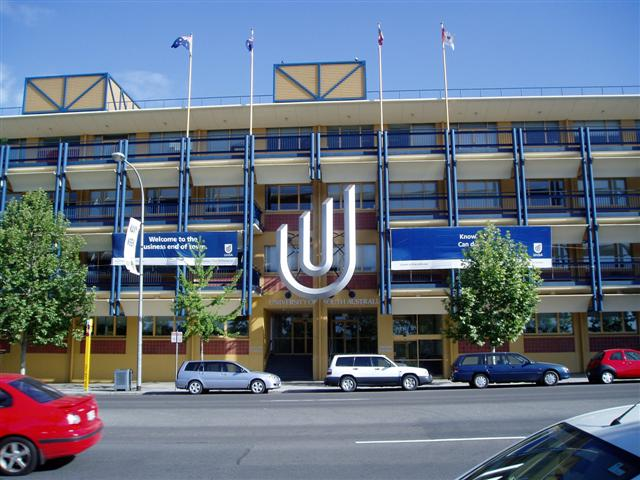 UniSA City West Campus